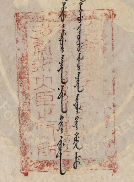 The seal of the Governor in Khovd, E'erqing'e.